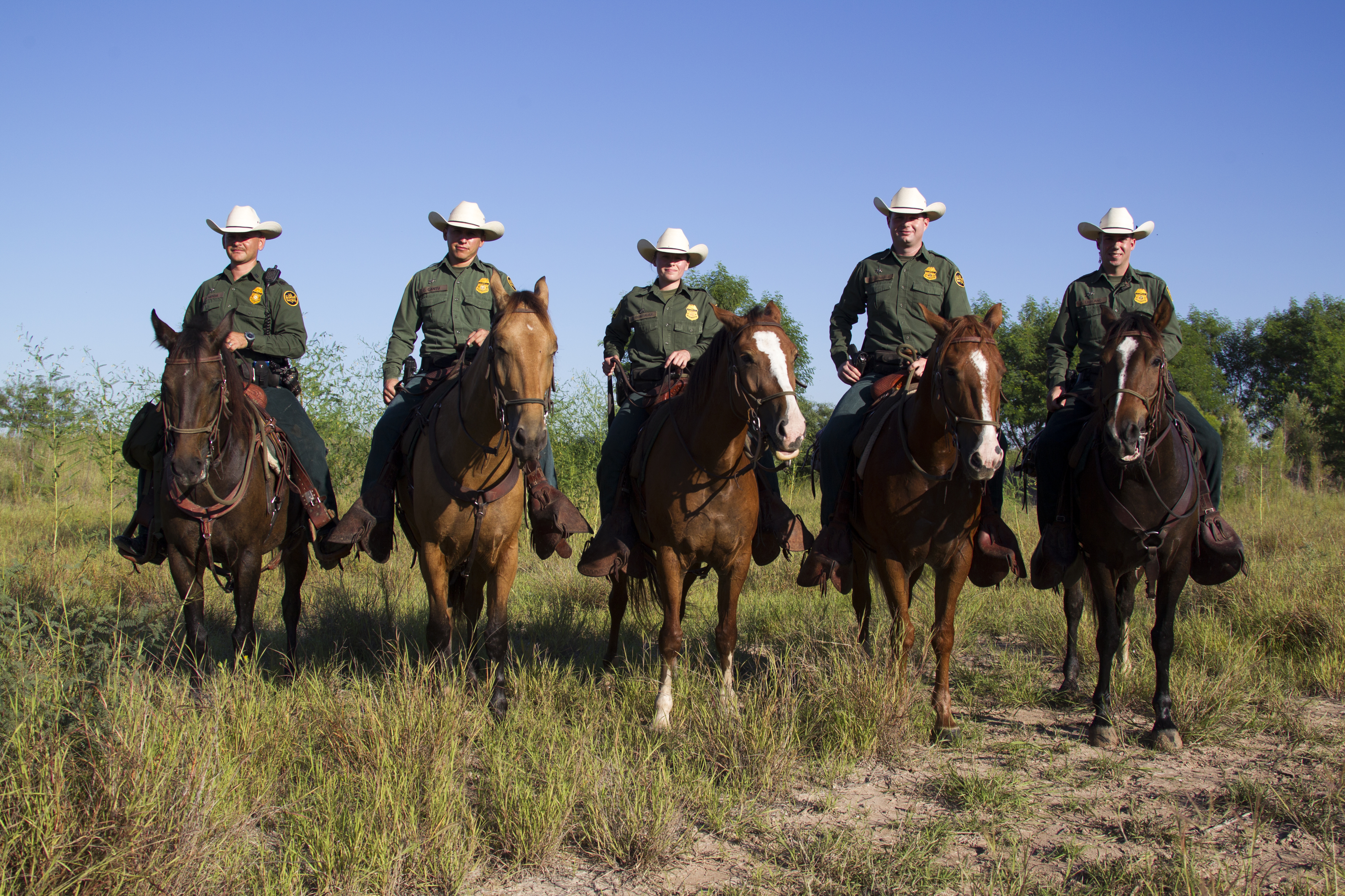 CBP, Border Patrol agents from the McAllen station horse patrol unit on patrol on horseback in South Texas. Photographer: Donna Burton